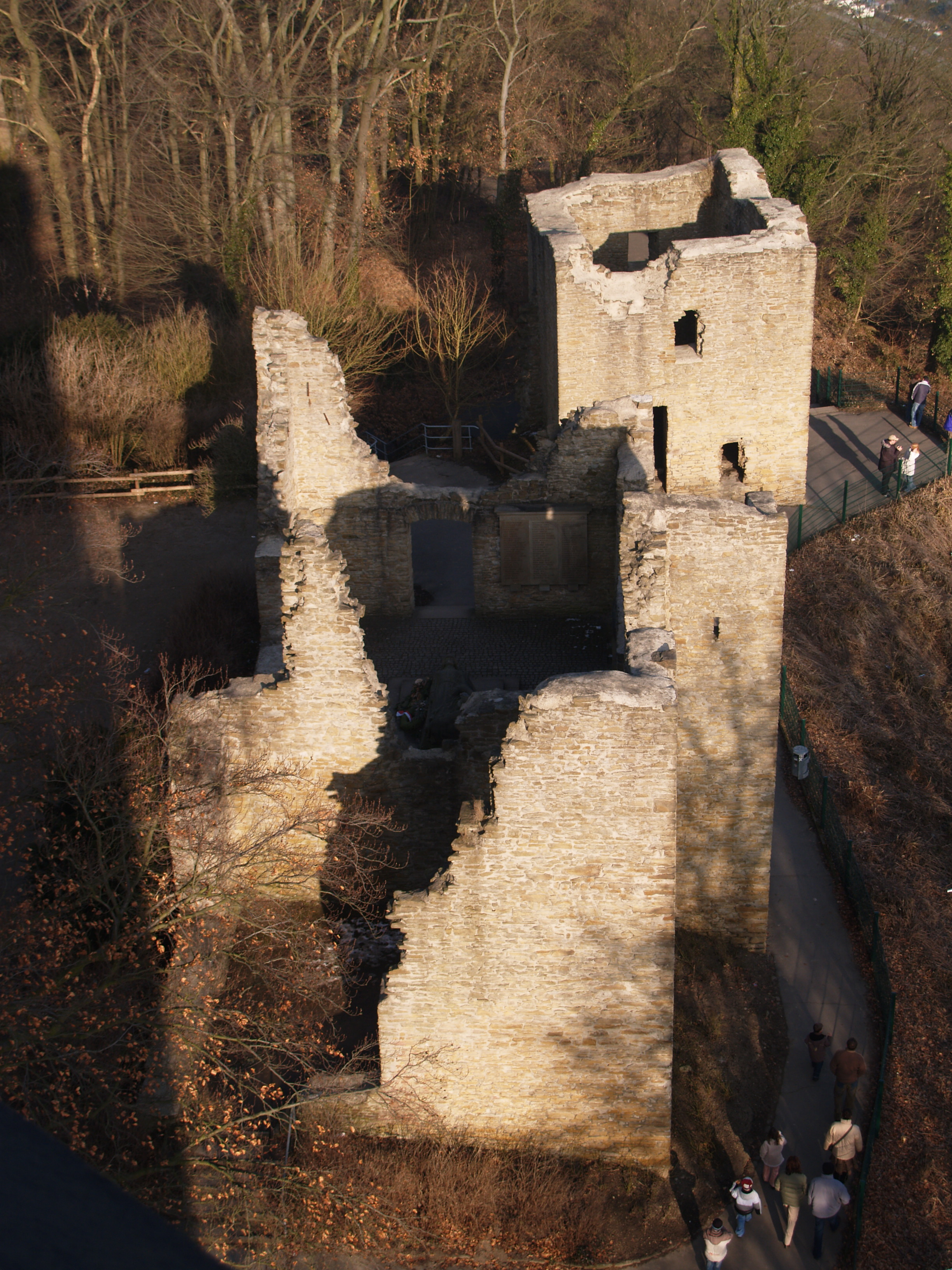 Ruins of Castle Syburg, seen from von Vincke tower